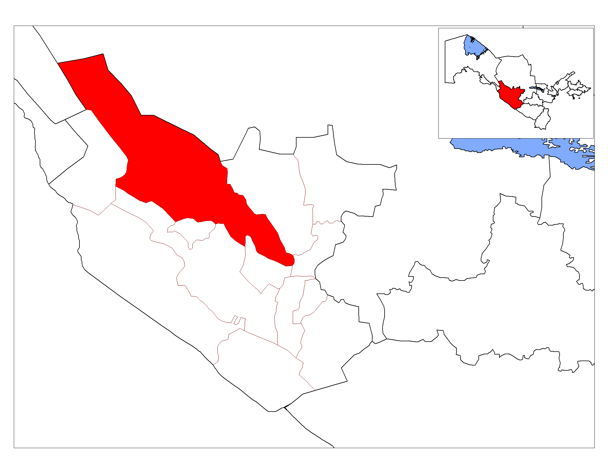 Location map of Peshku District in Buxoro Province, Uzbekistan